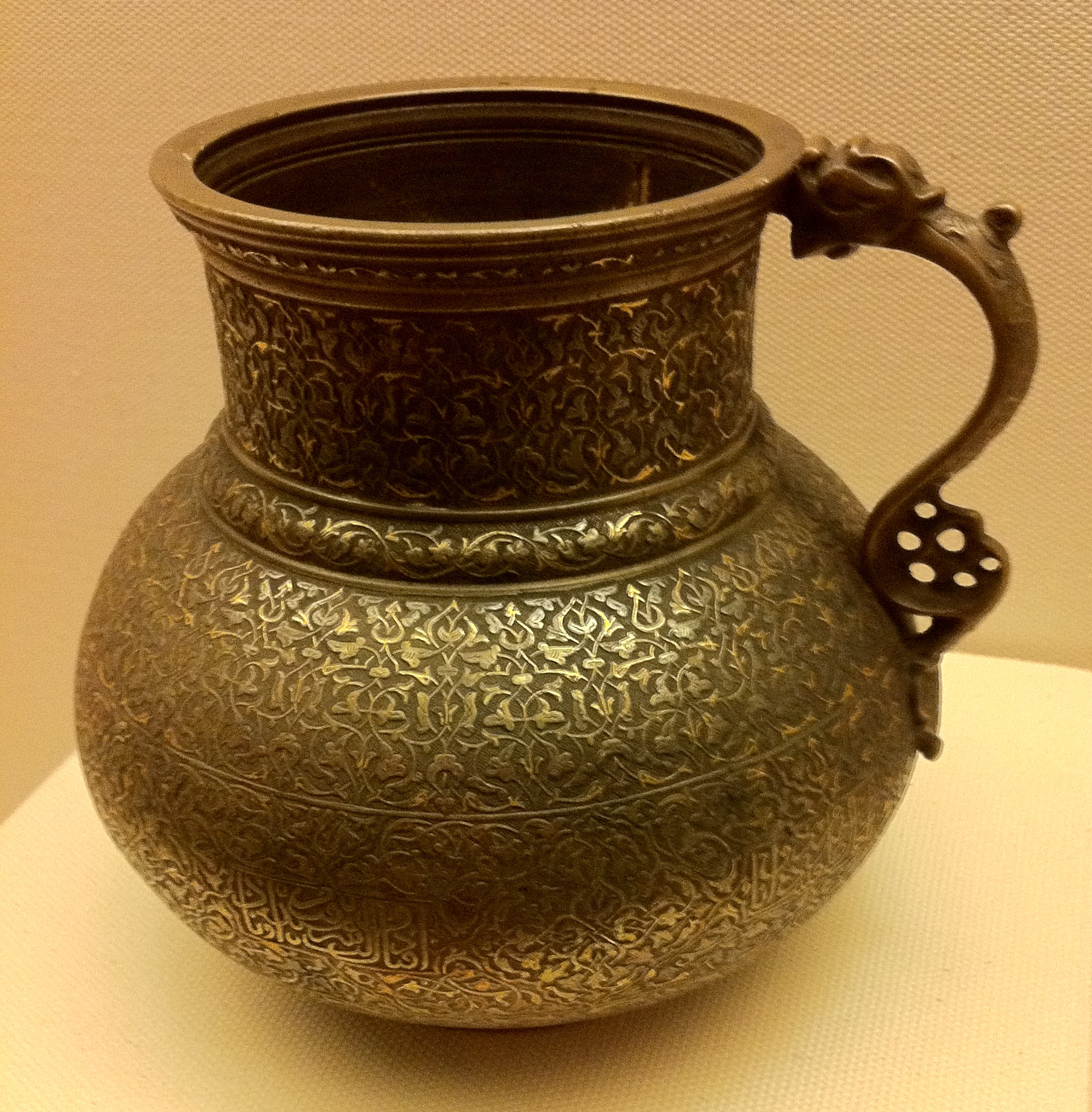 Brass cup or tankard, Timurid period, 15th century A.D., from Herāt, present-day Afghanistan, The Turkish and Islamic Arts Museum in Istanbul, Turkey (Turkish: Türk ve İslam Eserleri Müzesi), Personal photographs 2011.